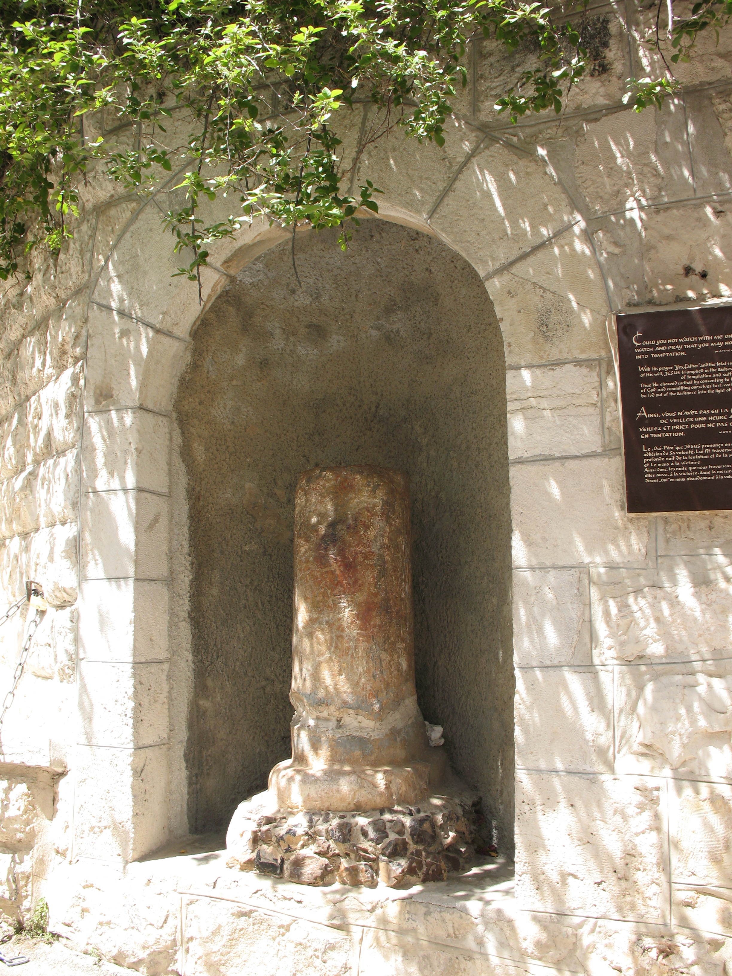 Old Column at Gethsemane_2214 Mount of Olives